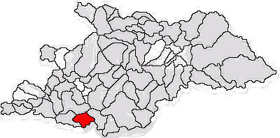 Limits of Boiu Mare commune in Maramureş County